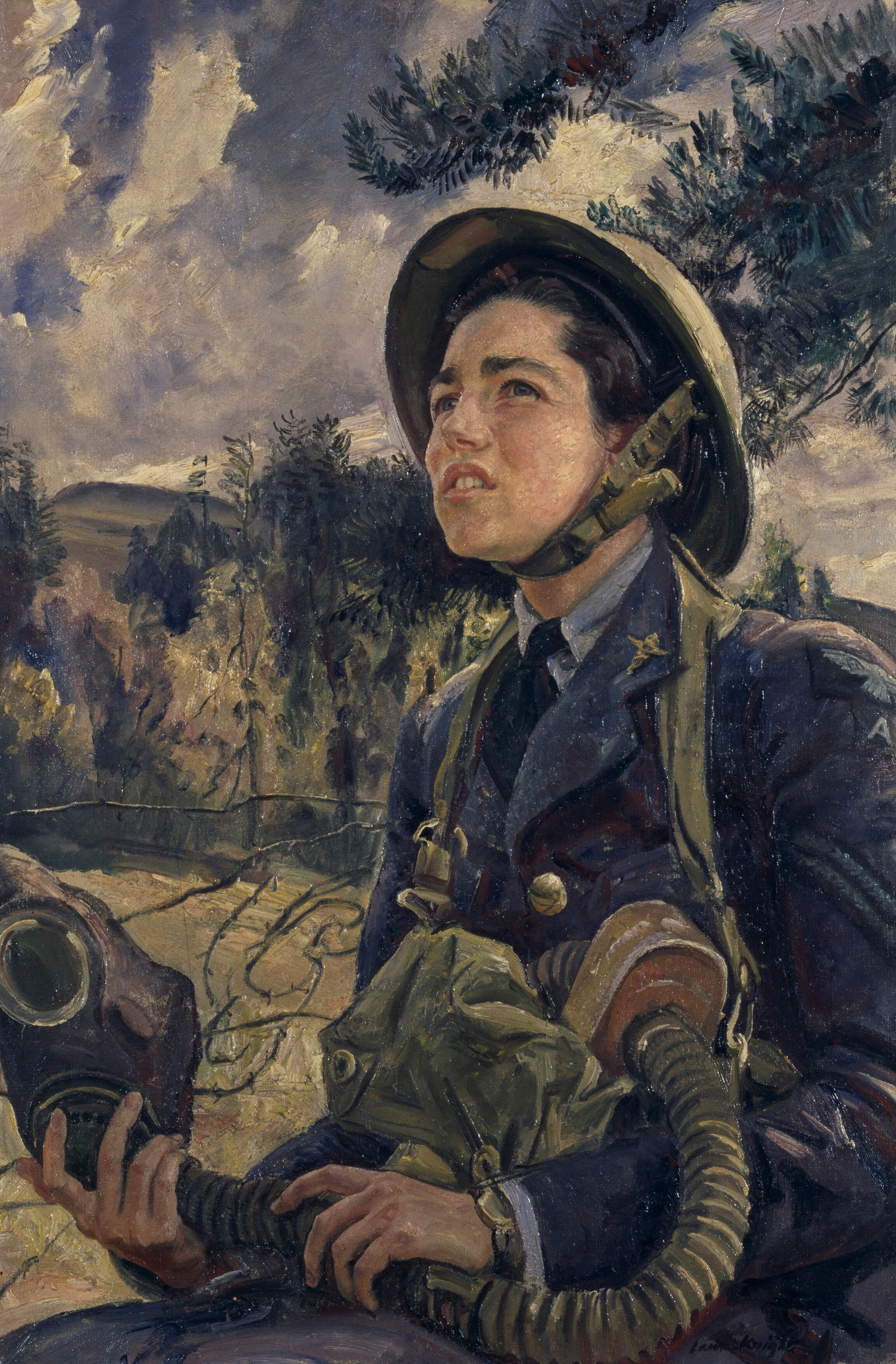 A three- quarters length portrait of Corporal Daphne Pearson, shown on duty, in uniform, looking skywards and holding a respirator.